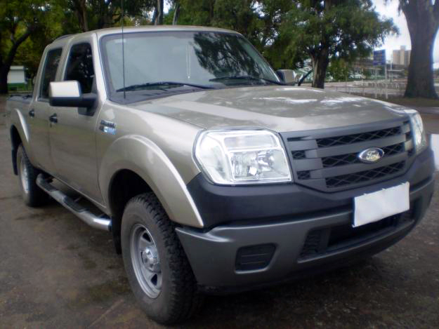 Ford Ranger pickup made in Argentina.